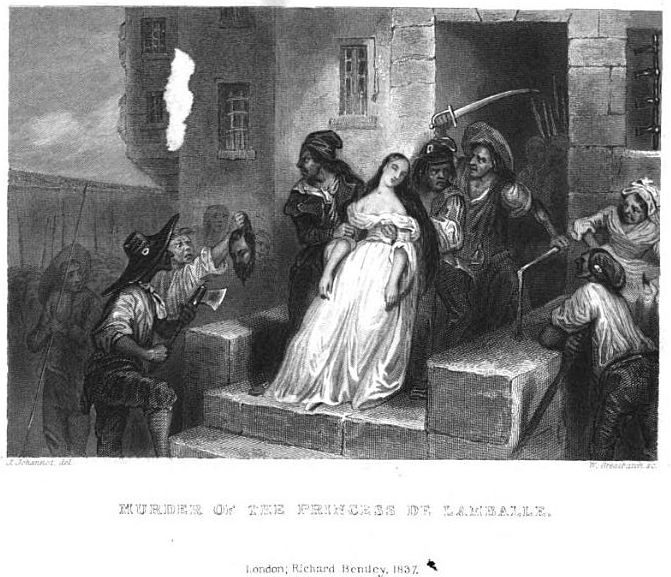 An etching depicting the murder of the Princesse de Lamballe during the French Revolution.